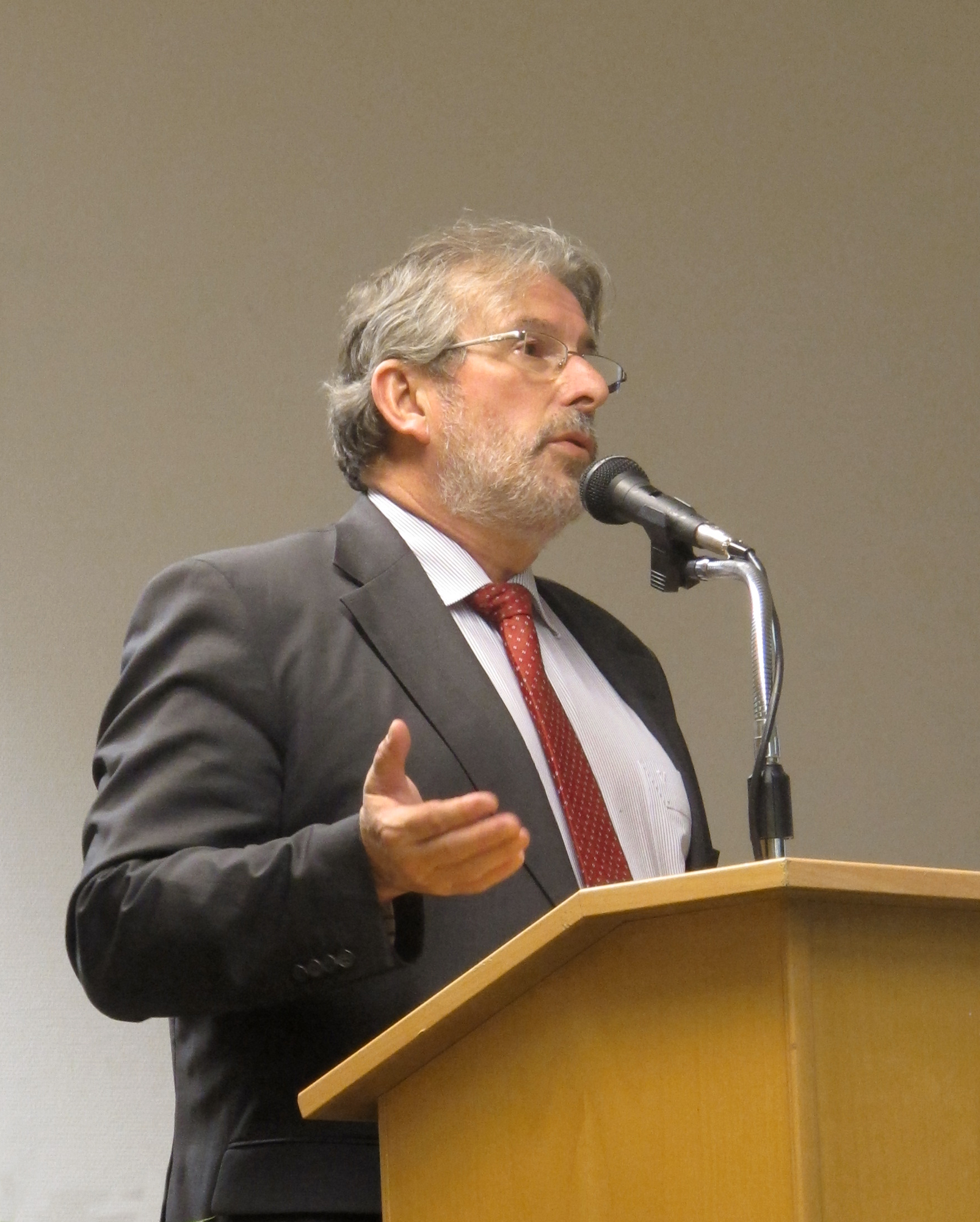 Mars Di Bartolomeo, social and health minister from Luxembourg